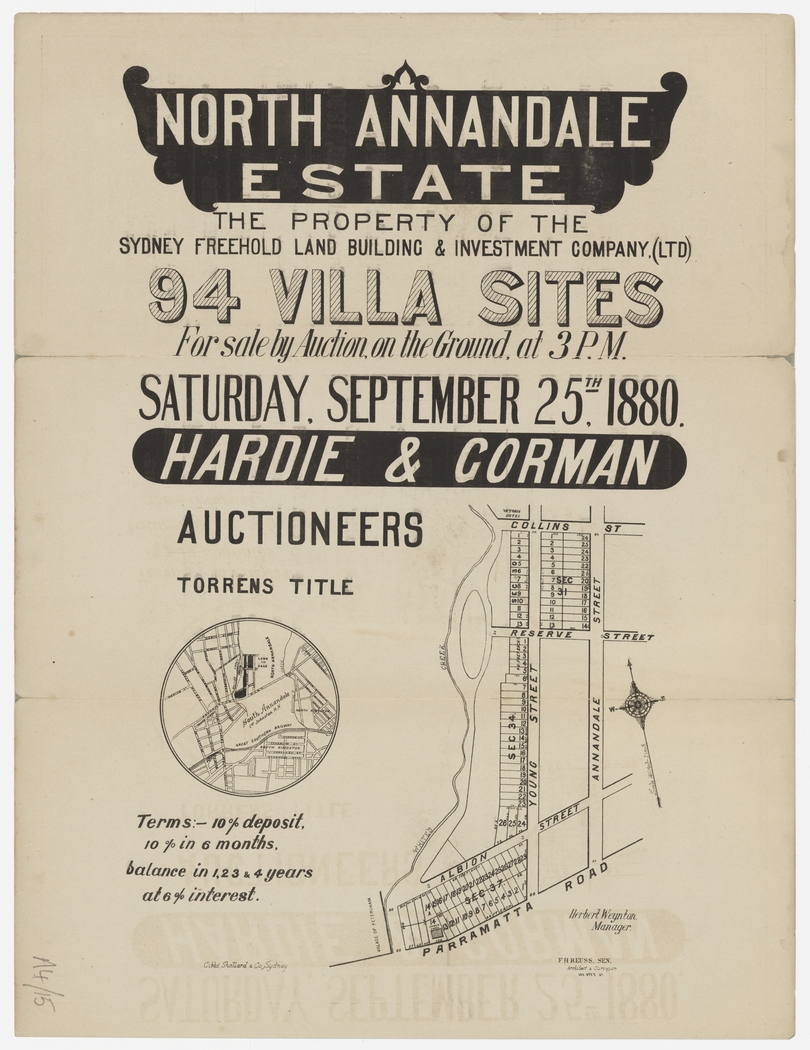 Subdivision Annandale, Reserve St, Young St, Albion St, Collins St, 1880, F H Reuss, State Library of New South Wales Z/SP/A4/15